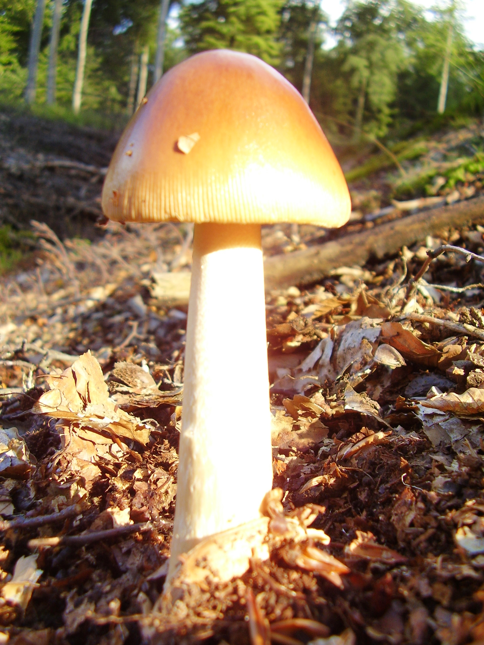 Description: Amanite fauve (Amanita fulva)- Forêt de Soignes (Bruxelles) Author: User:Ben2 Date of creation: 29 août 2006 Source: Photo personnelle